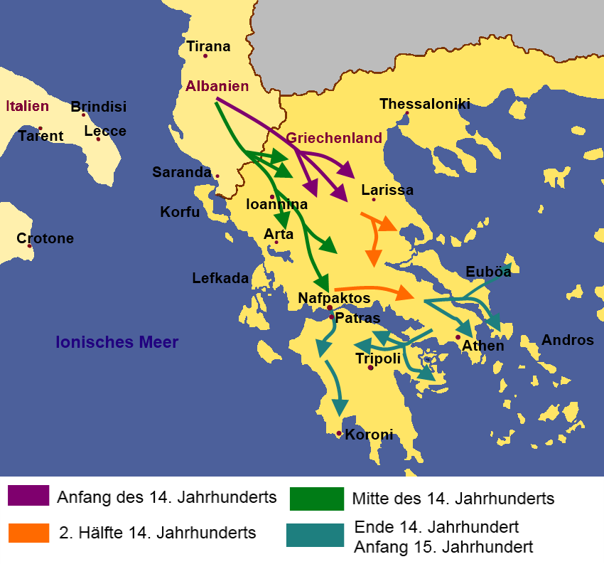 Albanian emigration to Greece between the 14th and 16th centuries